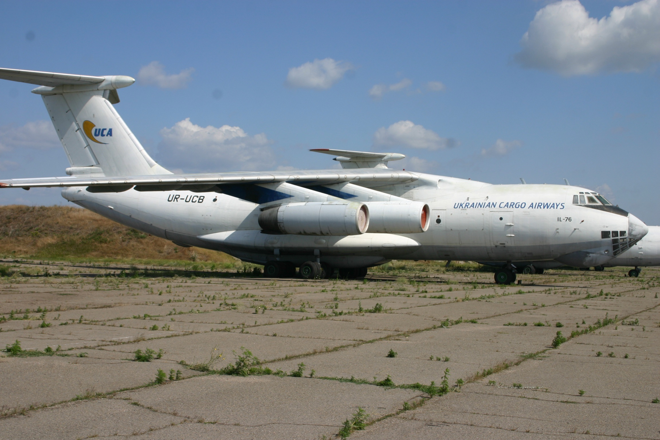 At Zaporizhia International Airport